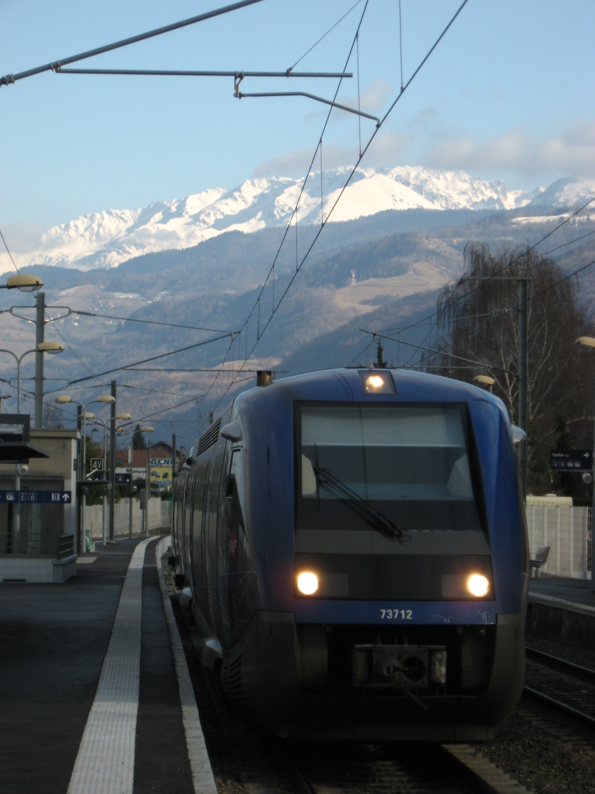 View of a diesel unit in Grenoble Giéres station, with Belledonne mountains in the background.